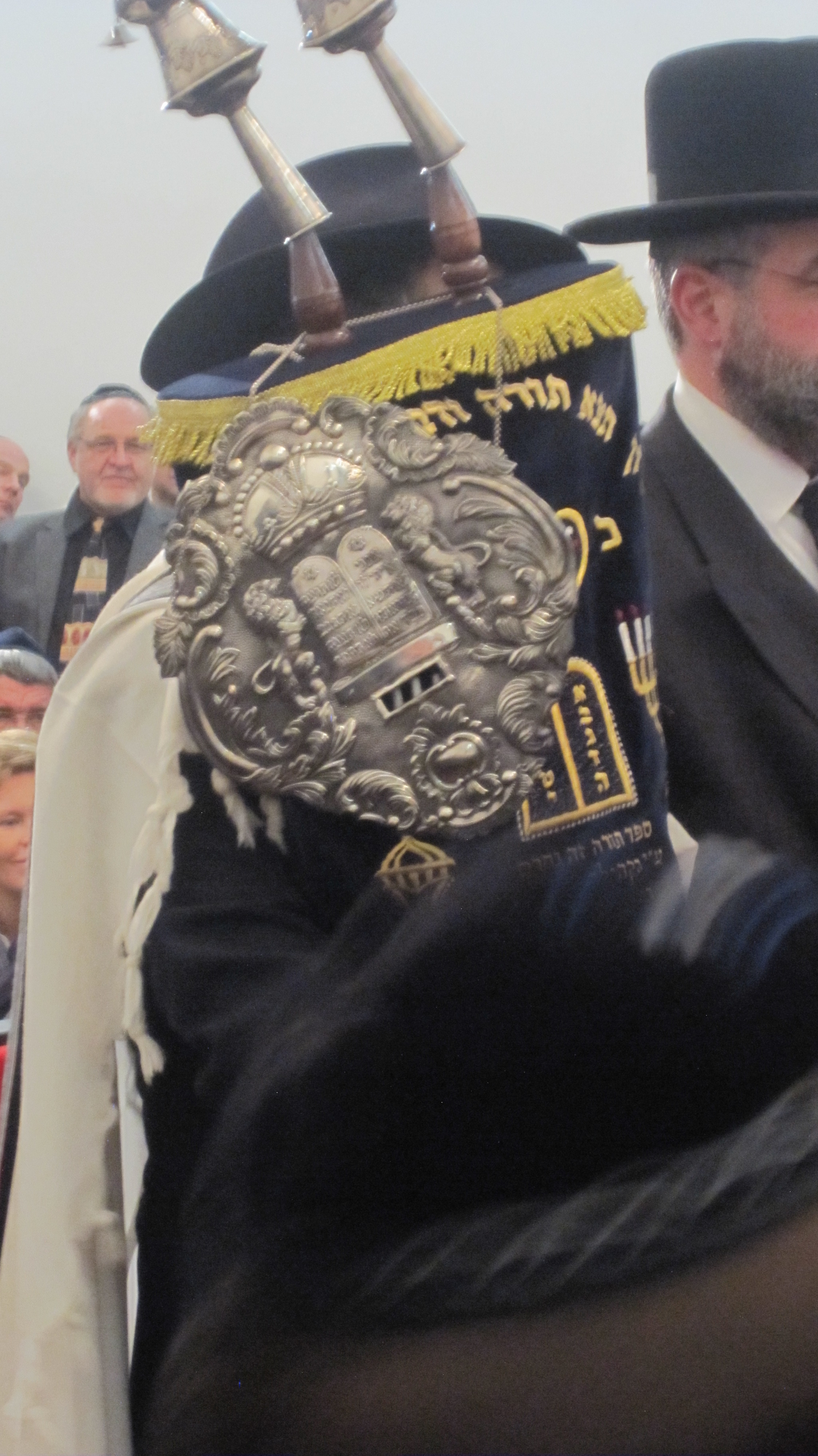 Torah shield at the dedication of the Tora-Beith Shalom Synagogue Speyer